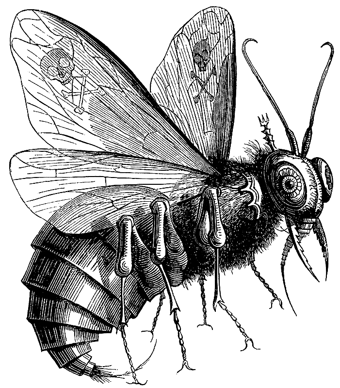 Belzebuth, or Belzebub, or Beelzebuth, according to the scriptures: the prince of demons, the first in power and crimes after Satan, his name means Lord of Flies, from J.A.S. Collin de Plancy. Dictionnaire Infernal. Paris: E. Plon, 1863.